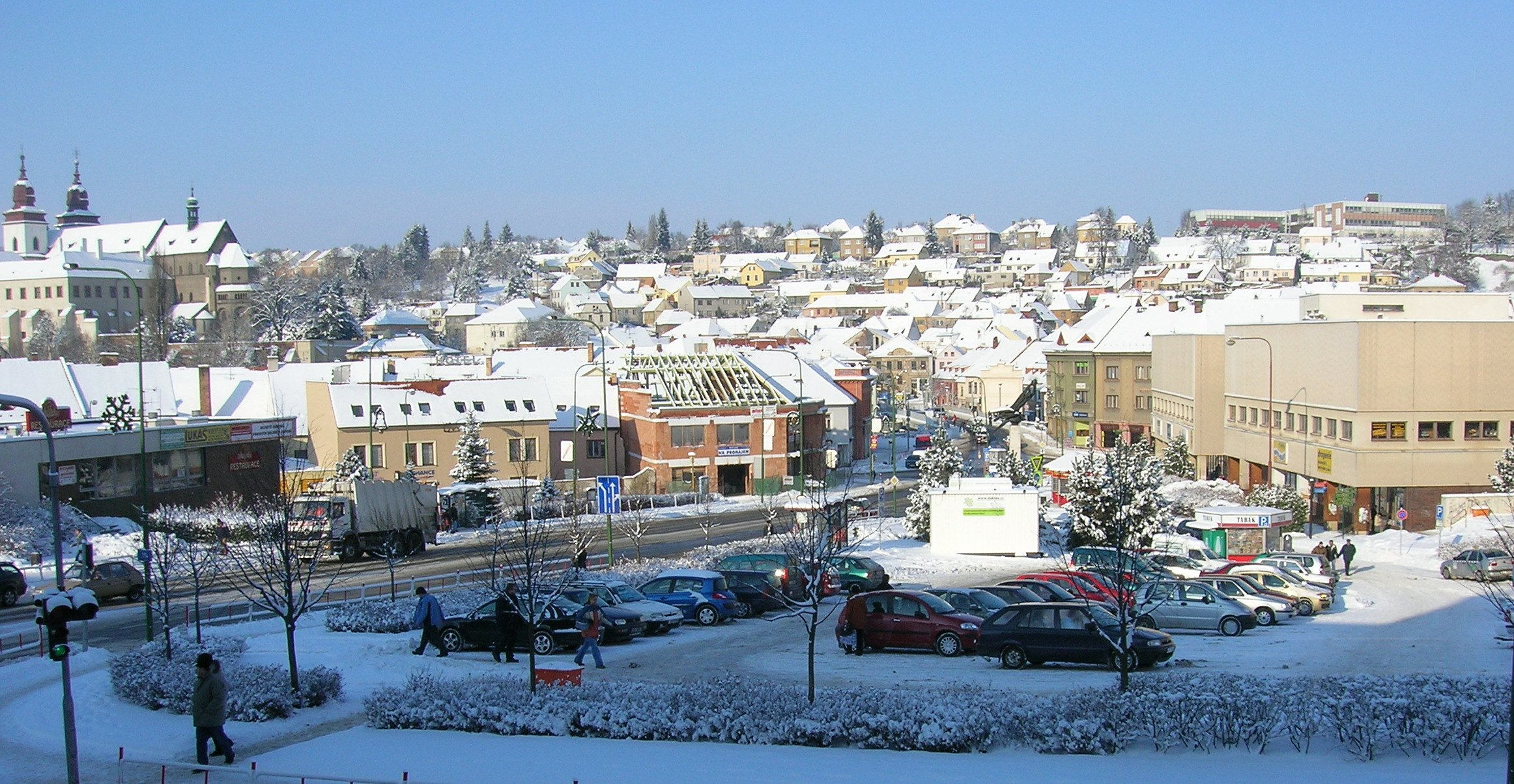 Třebíč. Komenský's Square and Podklášteří town district. Wider image.